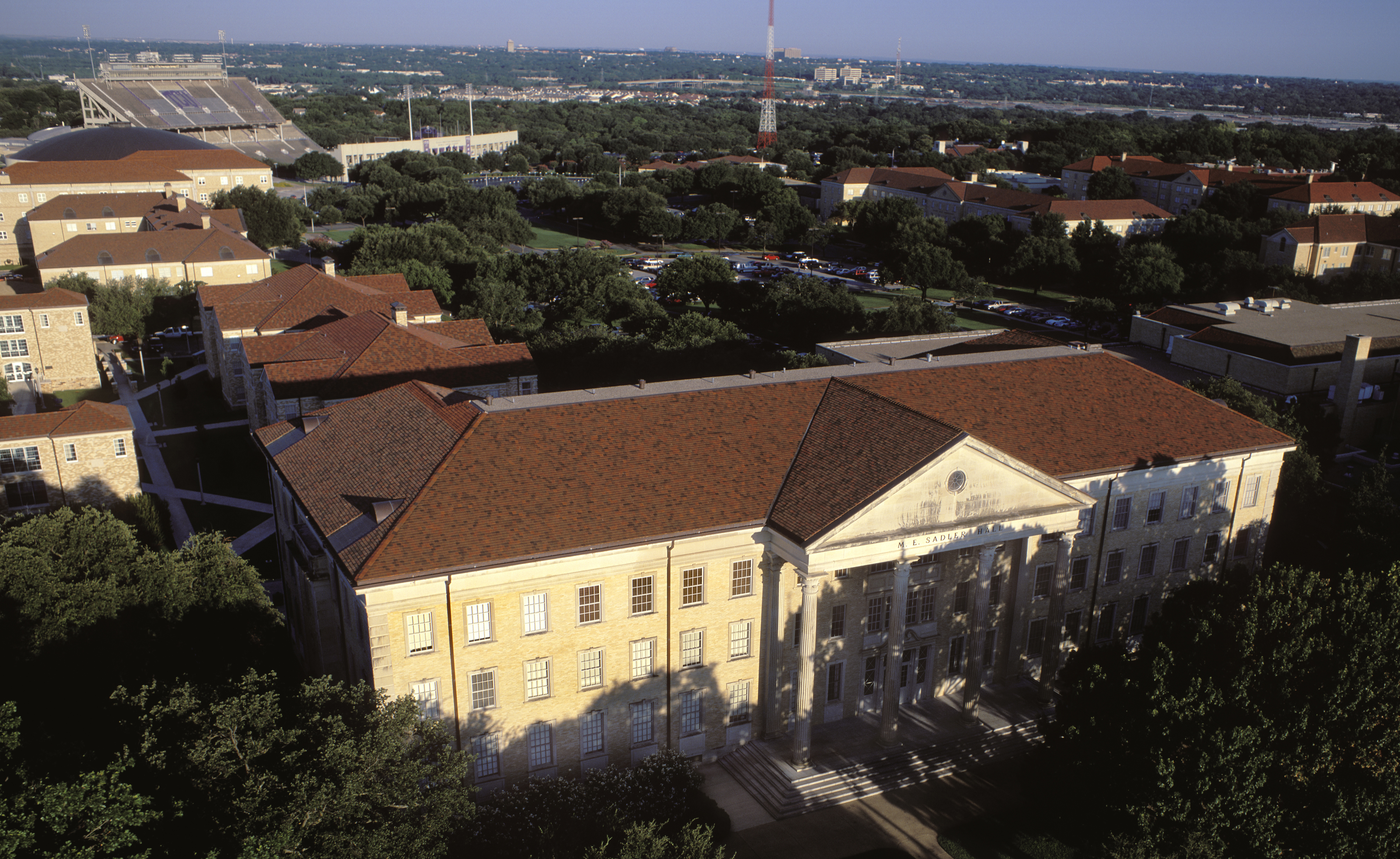 Aerial shot of TCU's Sadler Hall administration building. (Prior to 2007)